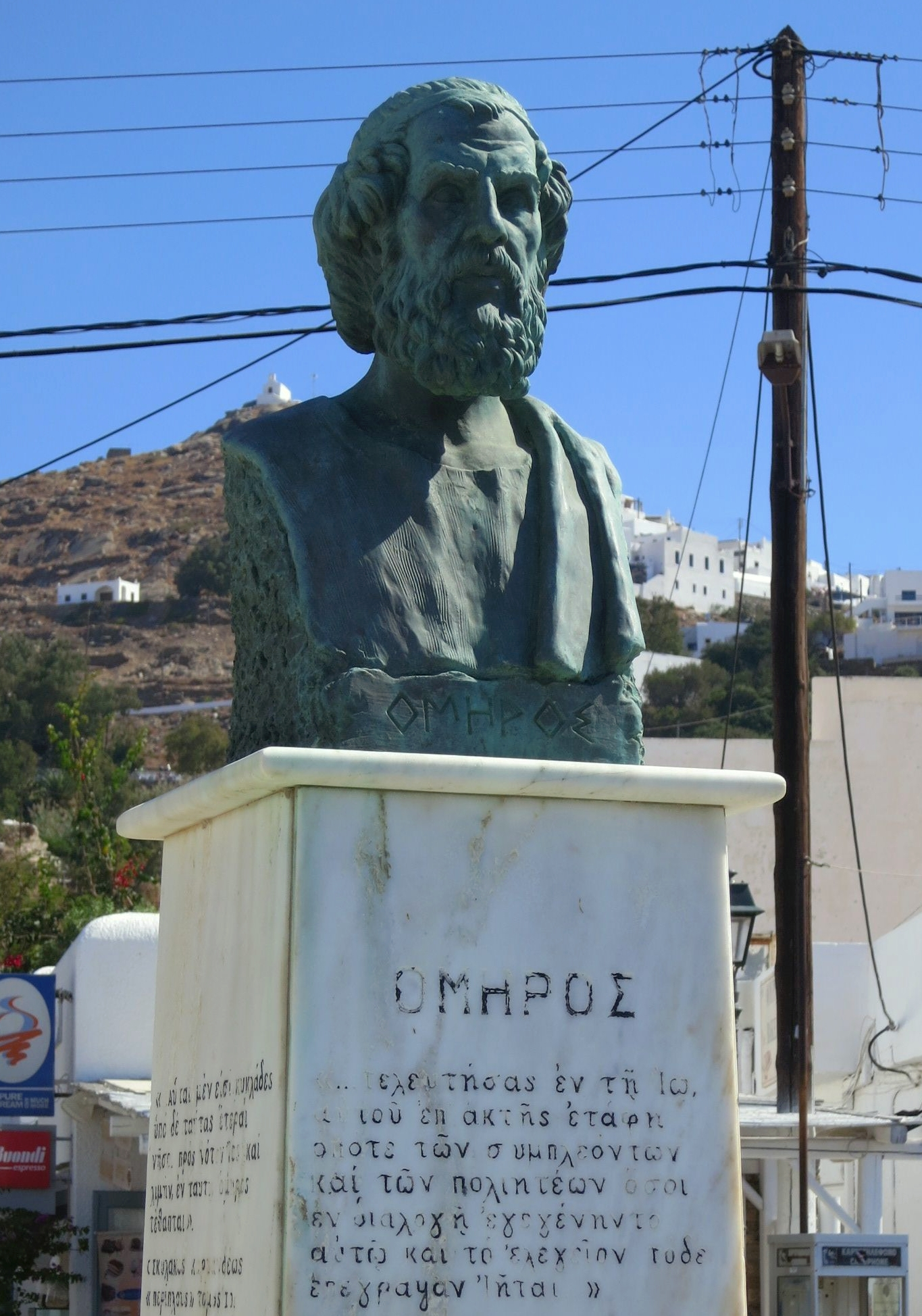 Bust of Homer at the port of Gialos on Ios. (In the background above is Chora of Ios.)